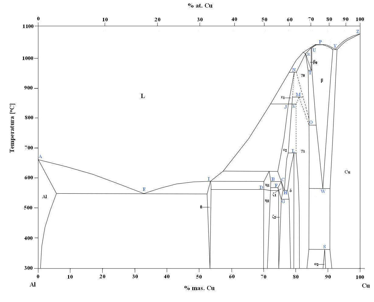 Binary phase diagram of AlCu.Attention: Diagram have illustrative and educational value. Some of the points and temperatures ​​over time may change due to the use better equipment and get much more pure alloys. Diagram made ​​on the basis of numerous dates from the literature in Polish and English language.